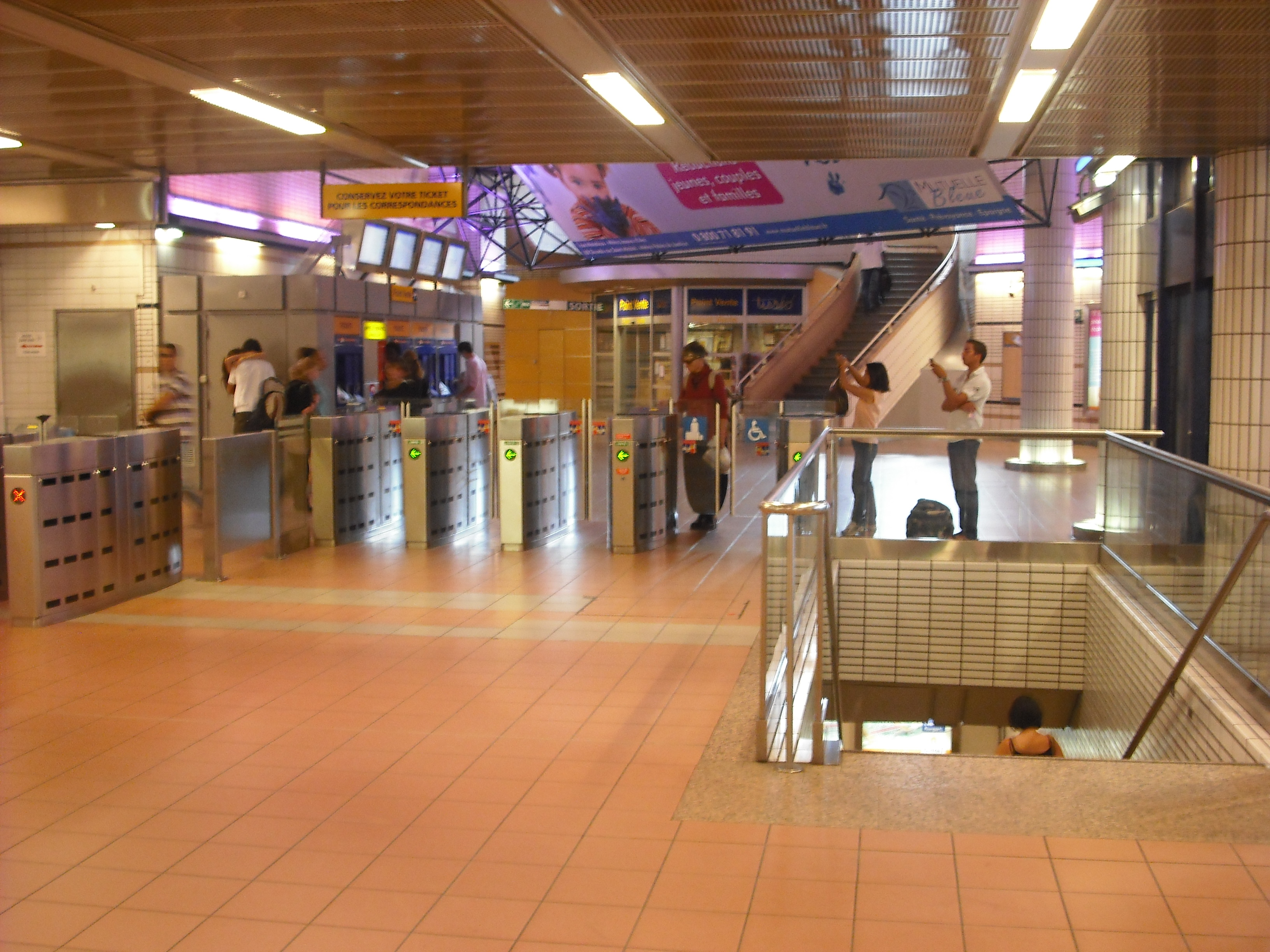 Marengo SNCF station on Line A of the Toulouse Metro